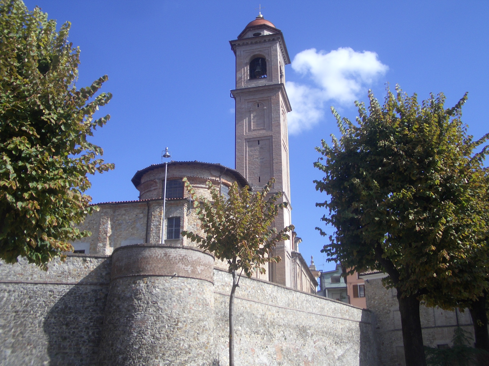 Church and ancient wall, Volpedo, Alessandria, Italy